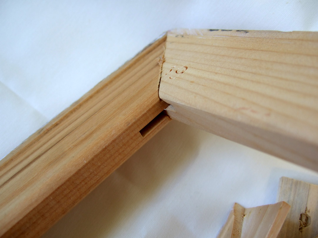 Interior angle of a pair of fully joined stretcher bars showing the slot designed for a tightening key to be inserted.